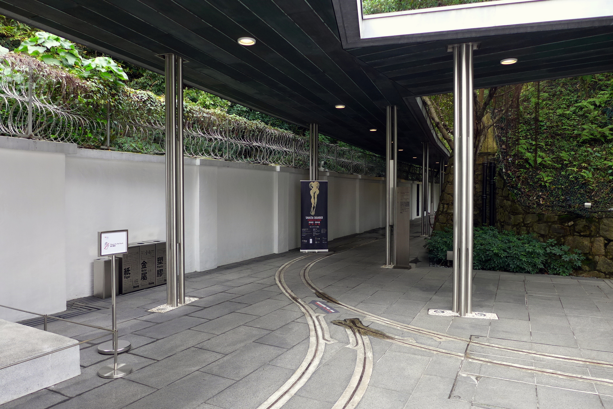 Asia Society Explosives Track